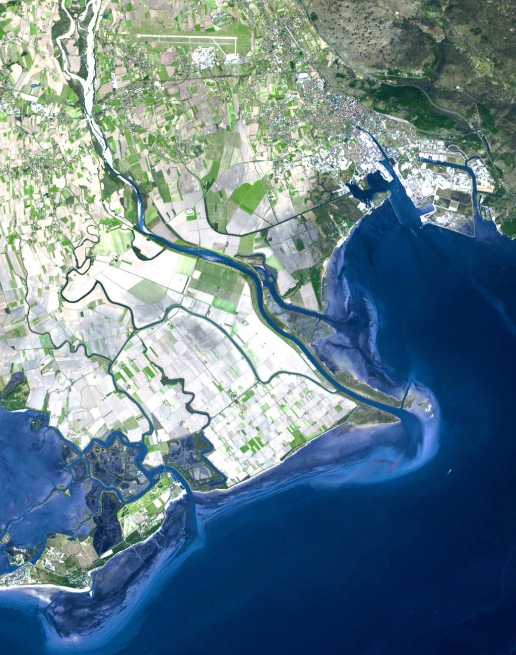 Satellite image of Soča (Isonzo) estuary - Slovenia and Italy (Friuli-Venezia Giulia)